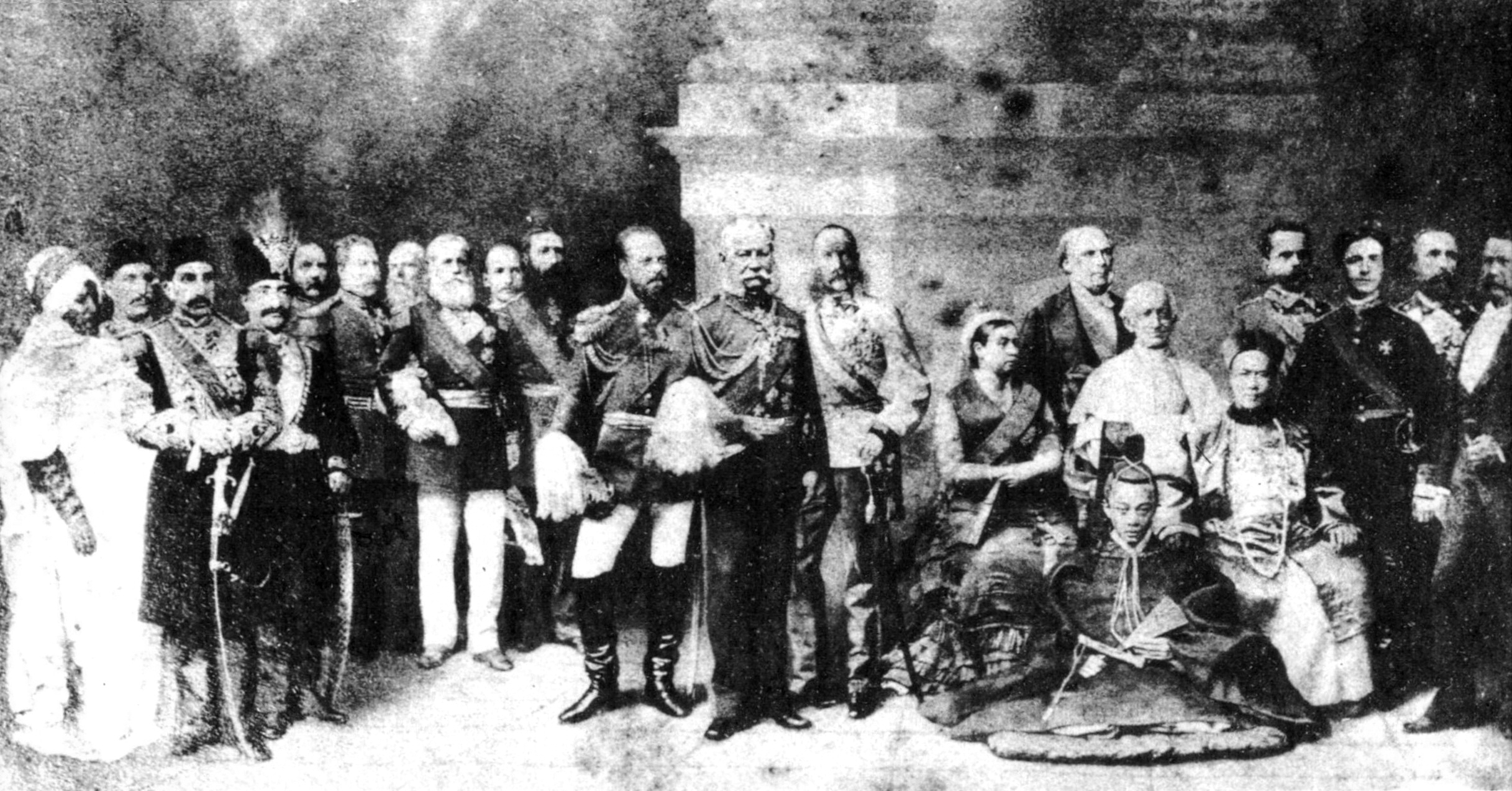 "The World's Sovereigns". A photomontage made in Europe in 1889 with the main heads of state in the world. From left to right: Yohannes IV of Ethiopia, Tewfik Pasha of Egypt, Sultan Abdülhamit II of the Ottoman Empire, Naser al-Din Shah Qajar of Persia, Christian IX of Denmark, Luís I of Portugal, William III of the Netherlands, Pedro II of Brazil, Milan Obrenović IV of Serbia, Leopold II of Belgium, Alexander III of Russia, Wilhelm I, German Emperor (deceased 1888), Franz Joseph I of Austria, Victoria of the United Kingdom, Jules Grévy of France (left office 1887), Pope Leo XIII, Emperor Meiji of Japan, Guangxu Emperor of China (not confirmed), Umberto I of Italy, Alfonso XII of Spain, Oscar II of Sweden and Chester A. Arthur of the United States (left office 1885, deceased 1886). Three of the photographers, who provided (willingly or not) photographic-material for the photomontage, are identified: Photo of Abdul Hamid II. by W. & D. Downey, London (File used in picture is bottom-left). Franz-Joseph I.`s photo comes from Ferenc Kosmata photographed in Schloss Schönbrunn. Umberto I. was photographed by Stereoscopic Coy. London Due to the fact, that Queen Victoria had been photographed by both, W&D Downey and Stereoscopic Coy., it is likely, that her photo comes from one of these sources.